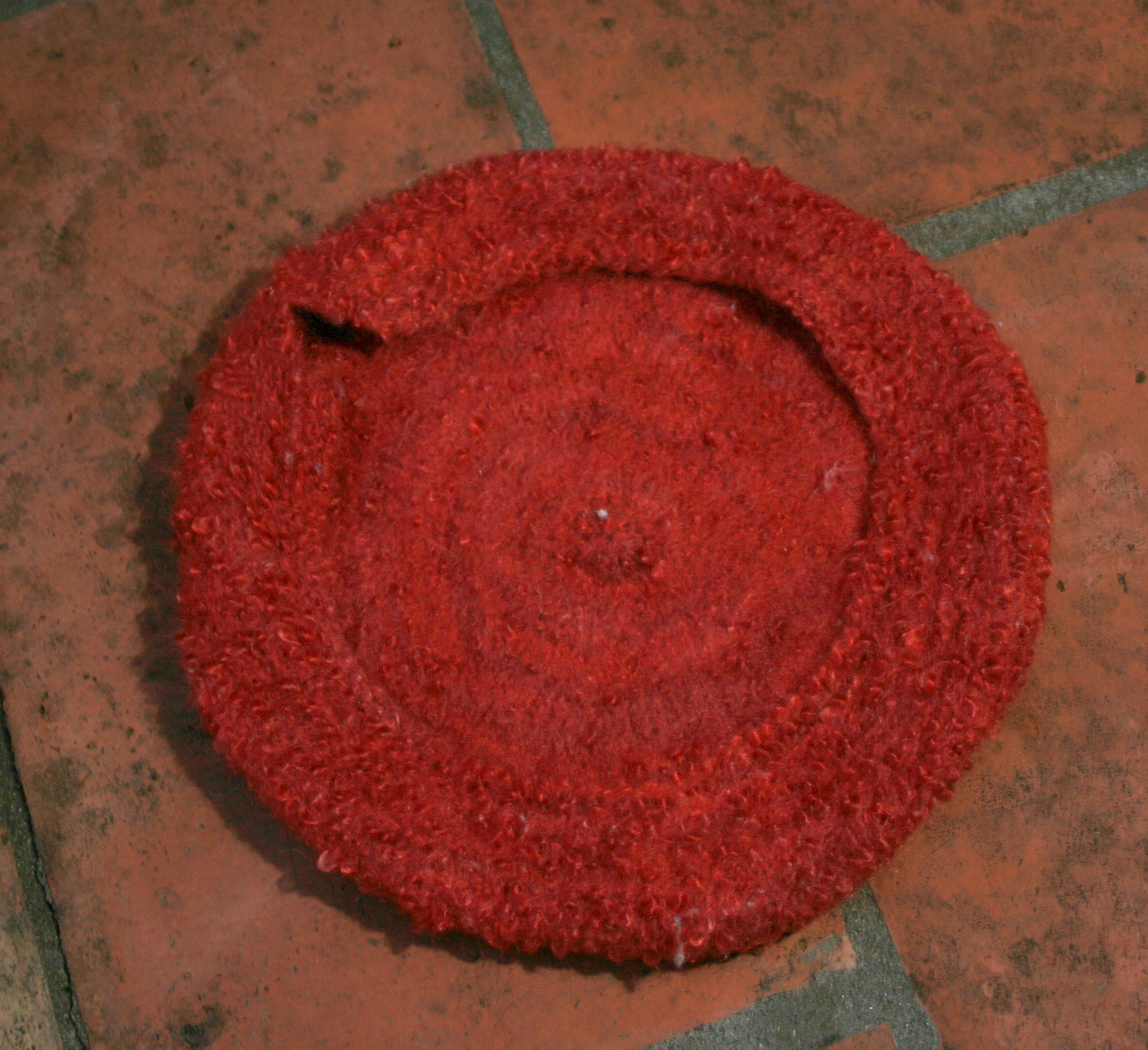 The gap is the only thing left to finish: I'm not sure whether to use a lace or button or just sew it up invisibly.